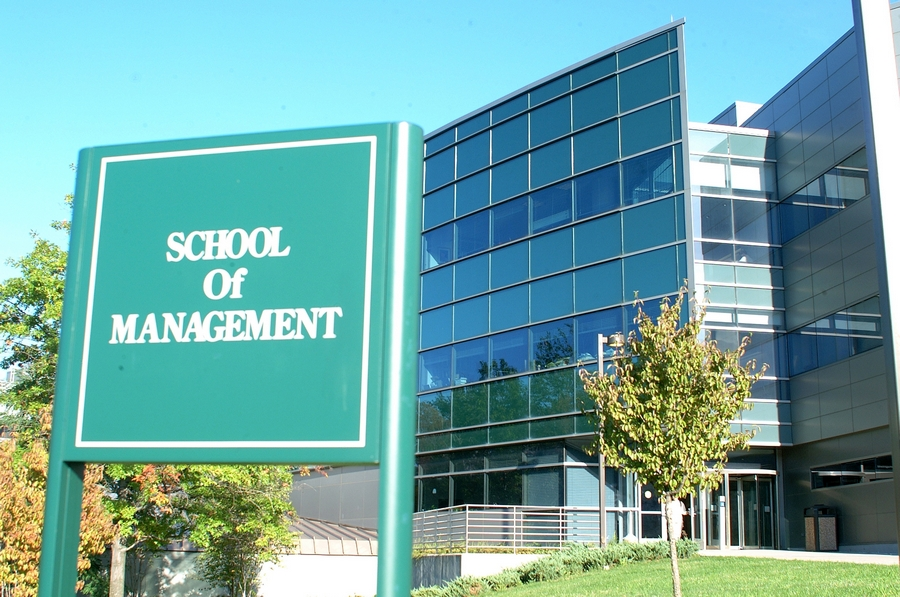 Binghamton University School of Management, SOM